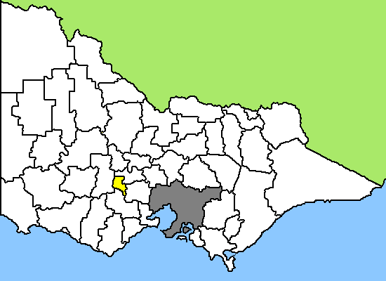 Map of Victoria/Australia, LGA of Ballarat City highlighted